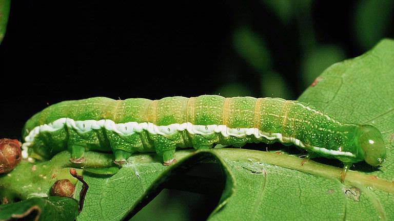 Caterpillar of Orthosia gothica